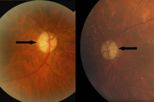 Patient with OPA1 mutation 1st image represents the patient's right eye fundus examination and we observe optic disk atrophy (arrow). 2nd image represents left eye fundus examination with another disk atrophy